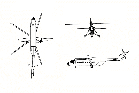 Mil Mi-6 HOOK